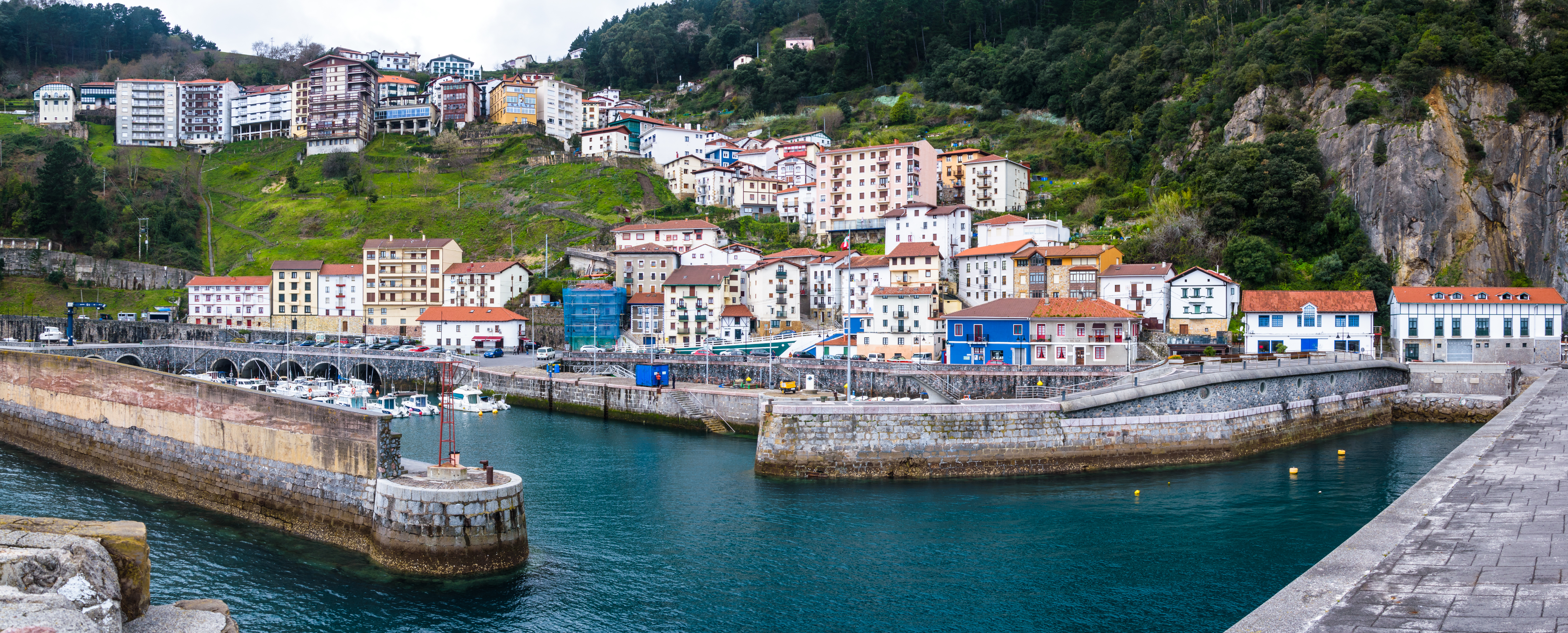 A view of Elantxobe from the port.